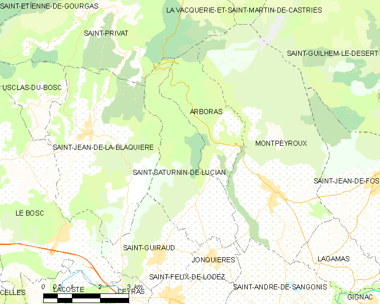 Map commune FR insee code 34287.png - Saint-Saturnin-de-Lucian